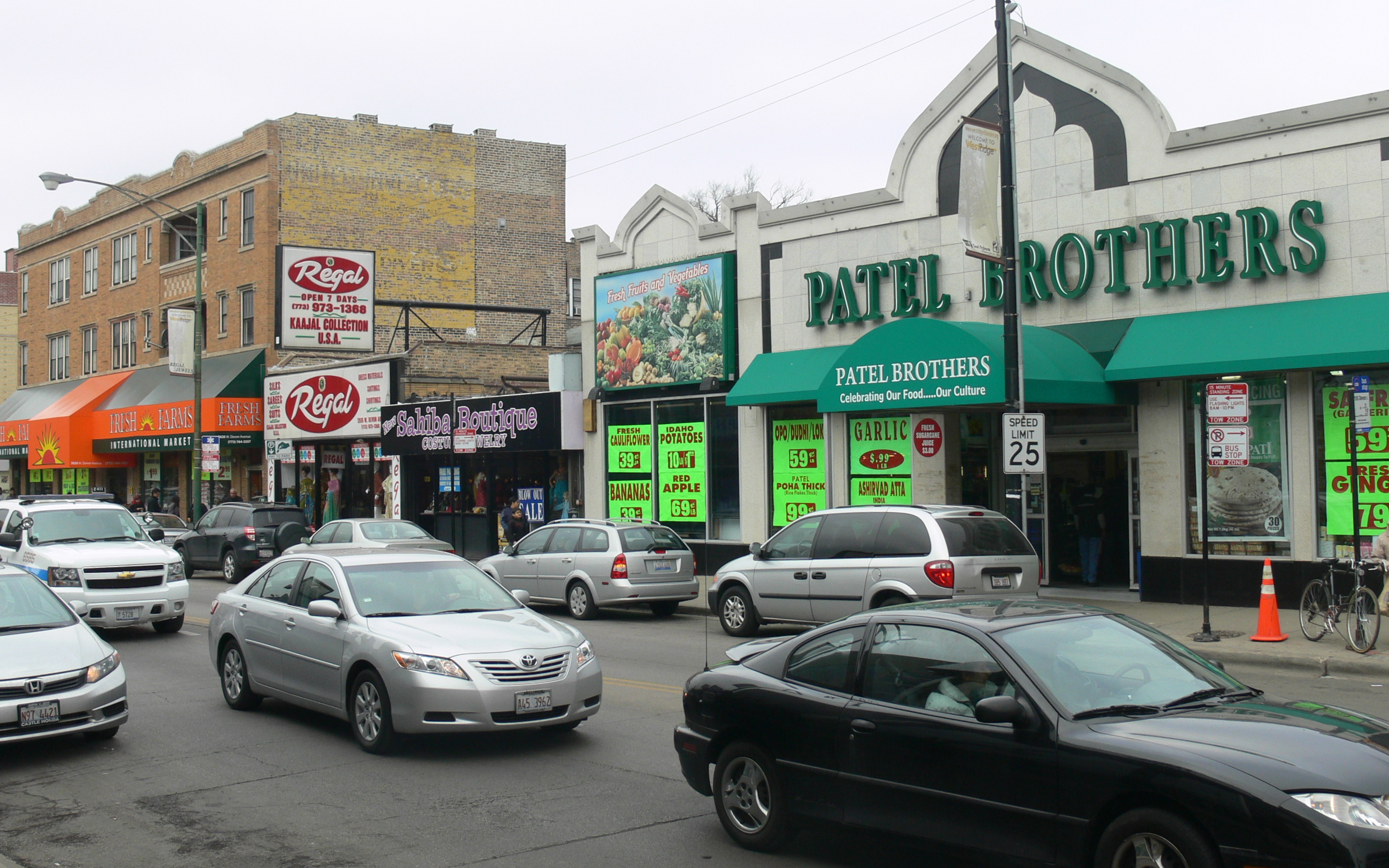 This is a chain but I'm glad it's in town. Down the street from it is our regular grocery store, Fresh Farms. This building used to be a post office, and if you ever have to use the bathroom do so because it is really old fashioned with a urinal all the way to the floor.